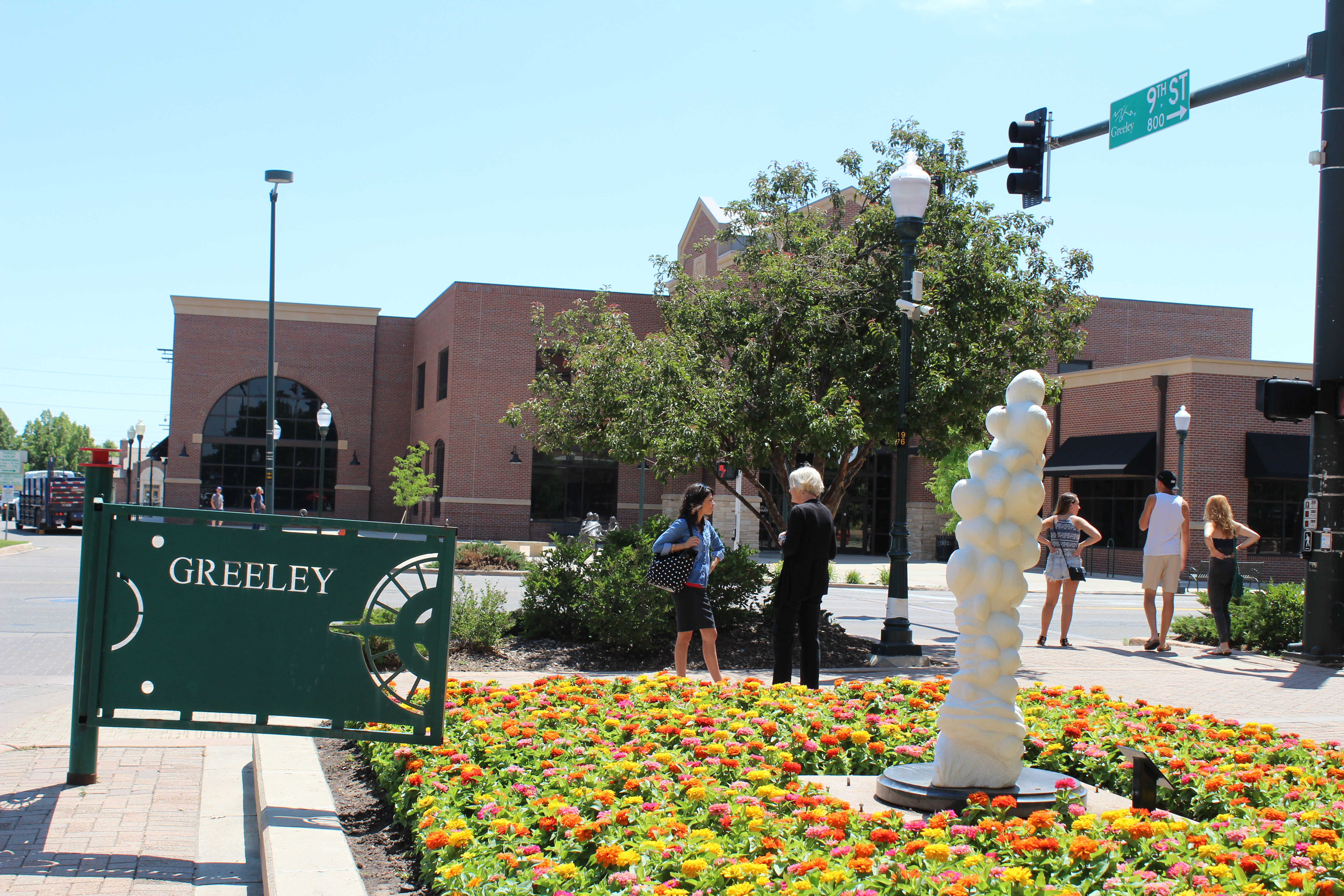 The 9th Street Plaza in Downtown Greeley, Colorado. (8th Ave & 9th Street)